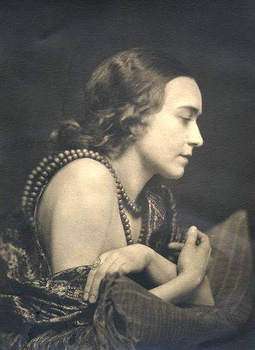 Jenny Hasselqvist